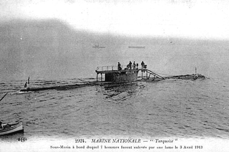 Emeraude-class submarine Turquoise